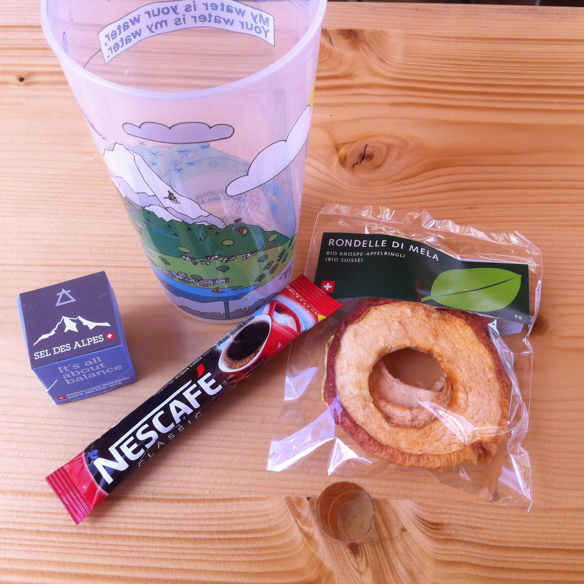 The "typical" Swiss food items distributed at the country's pavilion at Expo 2015 in Milano.